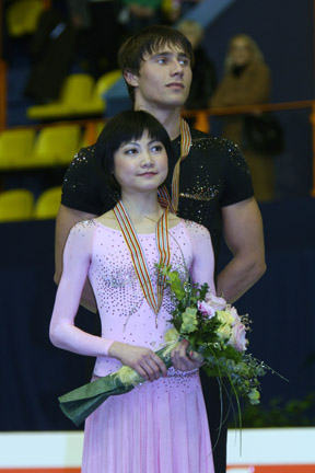 2008 European Figure Skating Championships - Yuko Kawaguchi and Alexander Smirnov